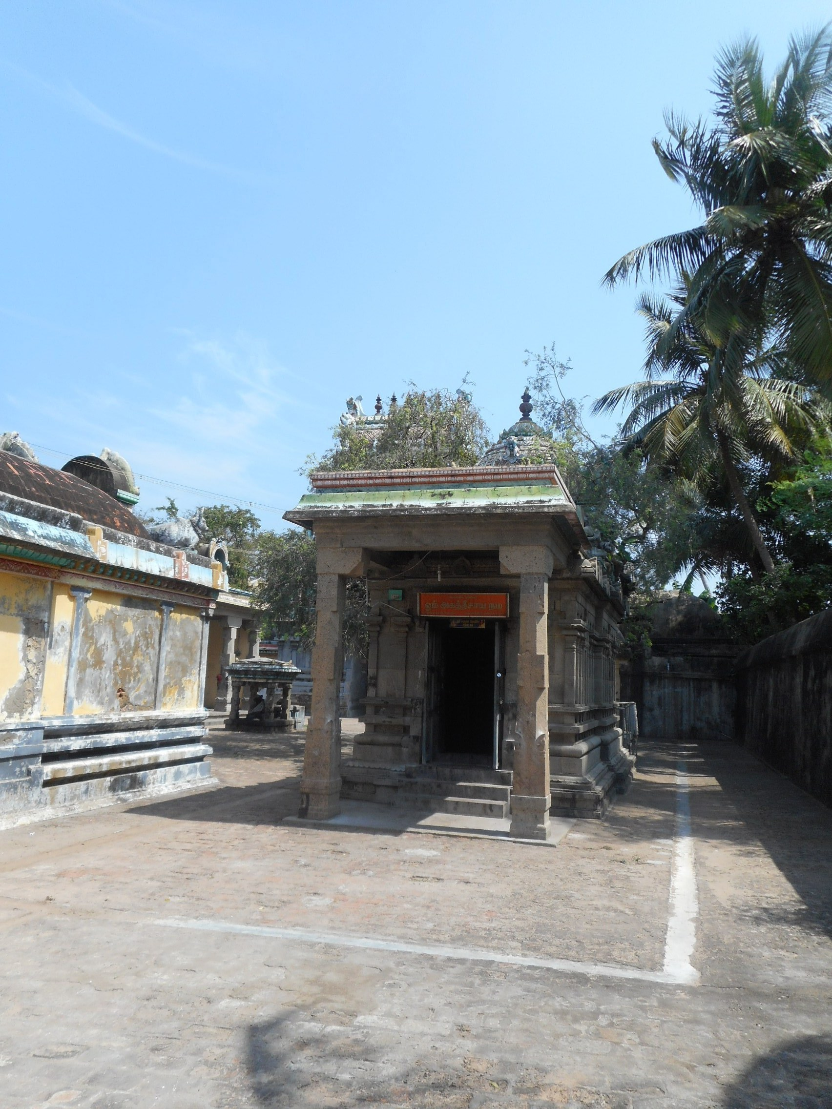 Agastianpalli temple அகத்தியான்பள்ளிகோயில்